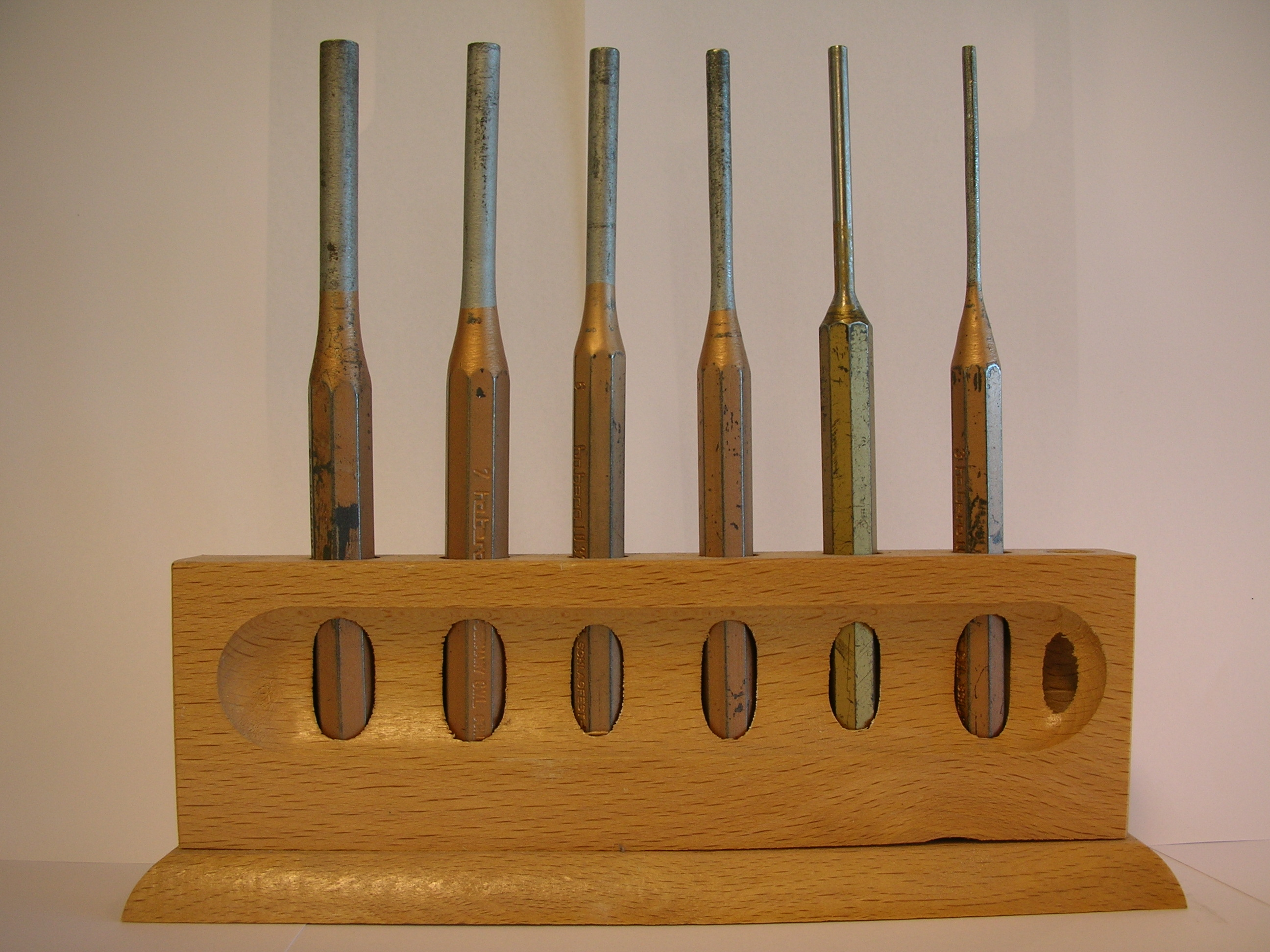 Pin punches